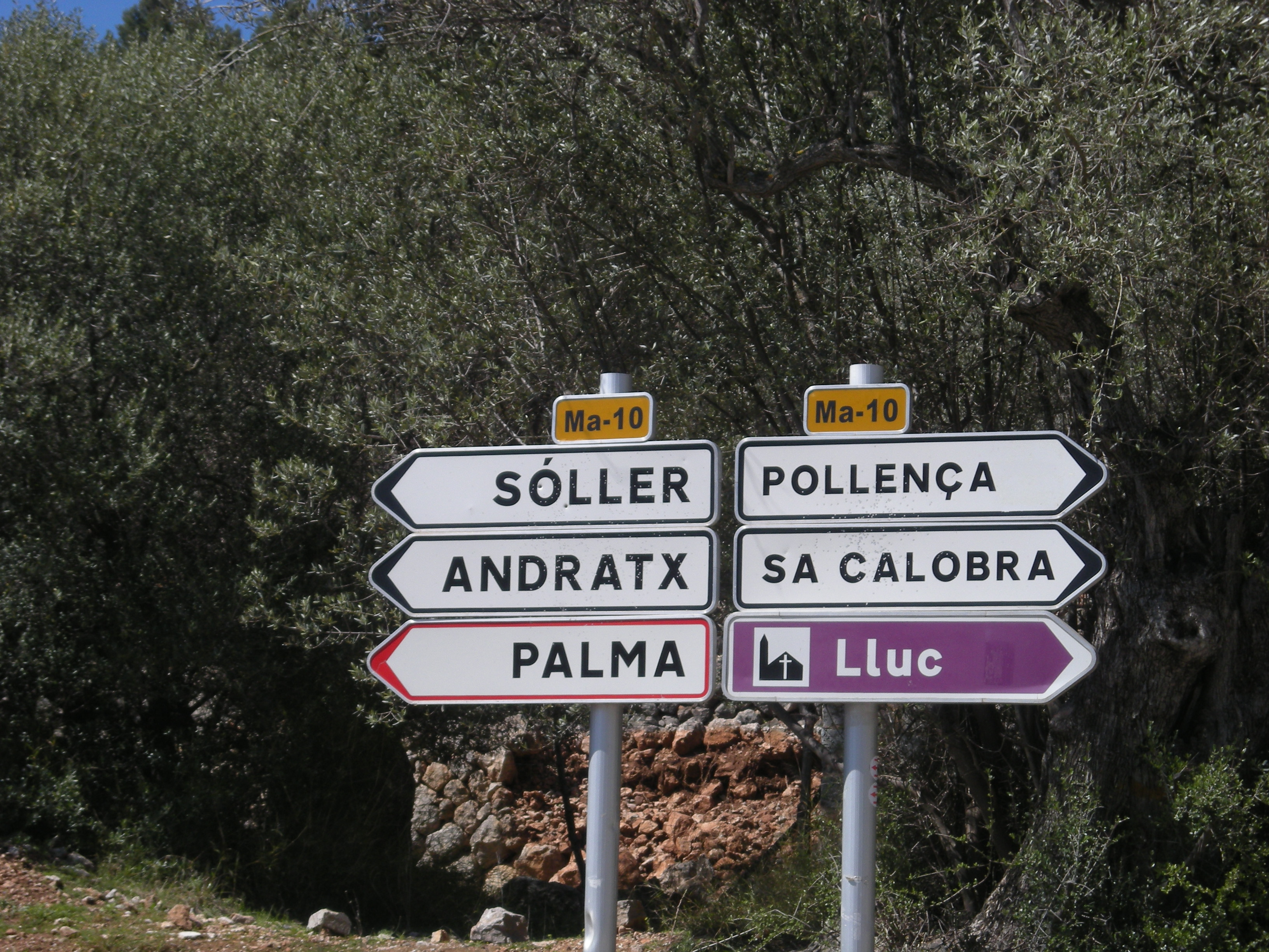 Carretera Ma-10 al creuer de Fornalutx. Mallorca